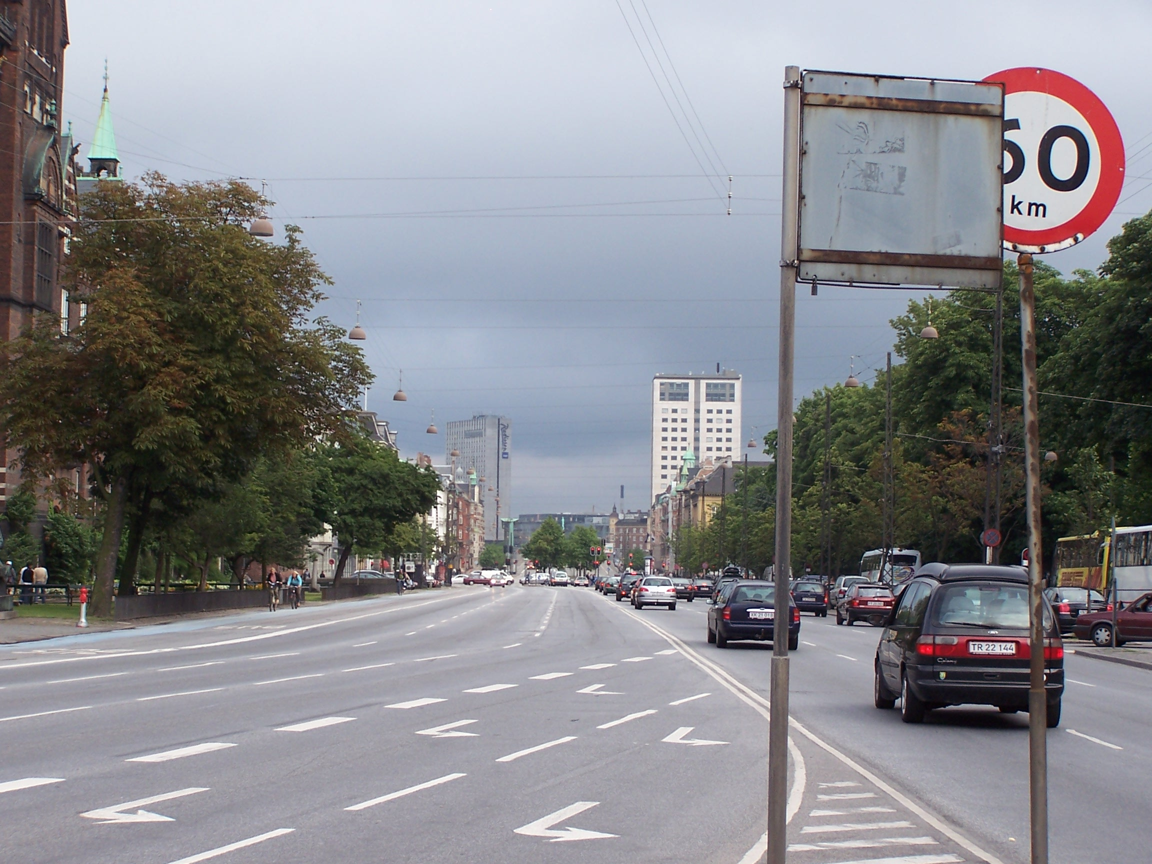 H C Andersens Boulevard, Copenhagen).